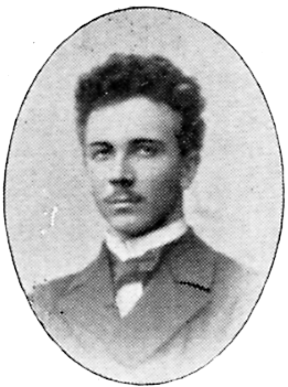 Image scanned from the book "Svenskt Porträttgalleri XX - Arkitekter, Bildhuggare, Målare m.fl. " ("Swedish Portrait Gallery XX - Architects, Sculptors, Painters, ") published 1901